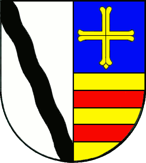 Coat of arms of the municipality Bad Schwartau in Schleswig-Holstein, Germany.